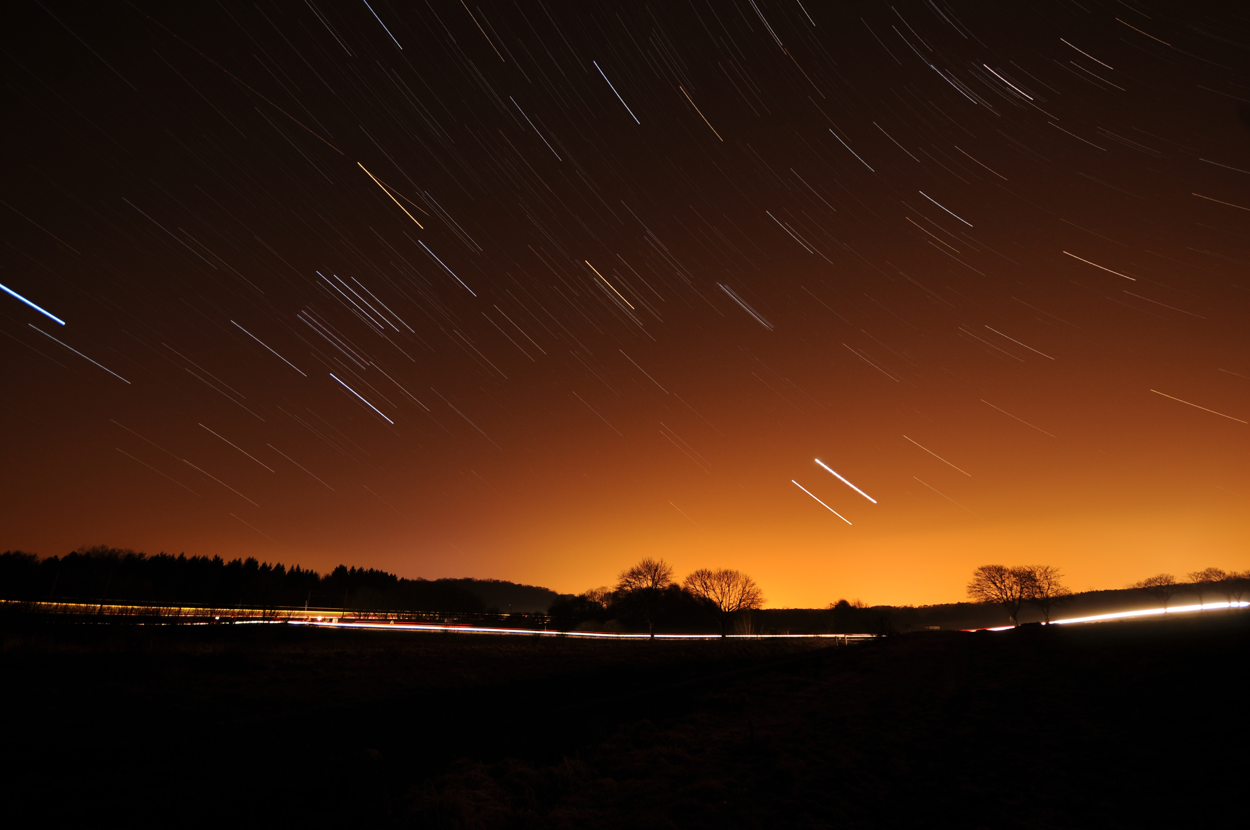 Startrails created from 14 photos (2 minutes of exposure). Other languages: See below. Technical info: This photograph was taken with a Nikon D300 Filé d'étoiles créé avec 14 photos : 2 minutes de pose ouverture : f/5.6 focale : 10 mm sensibilité : ISO 200 L'ensemble a été assemblé avec Startrails.